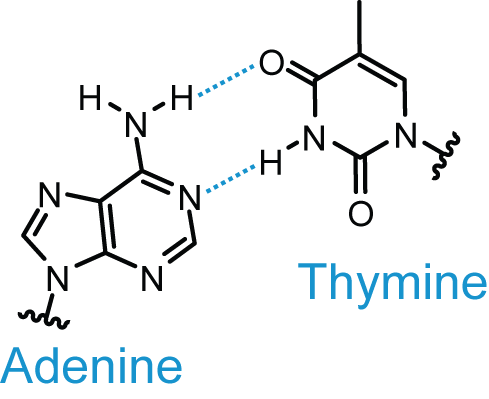 elf-made in chemdraw/illustrator